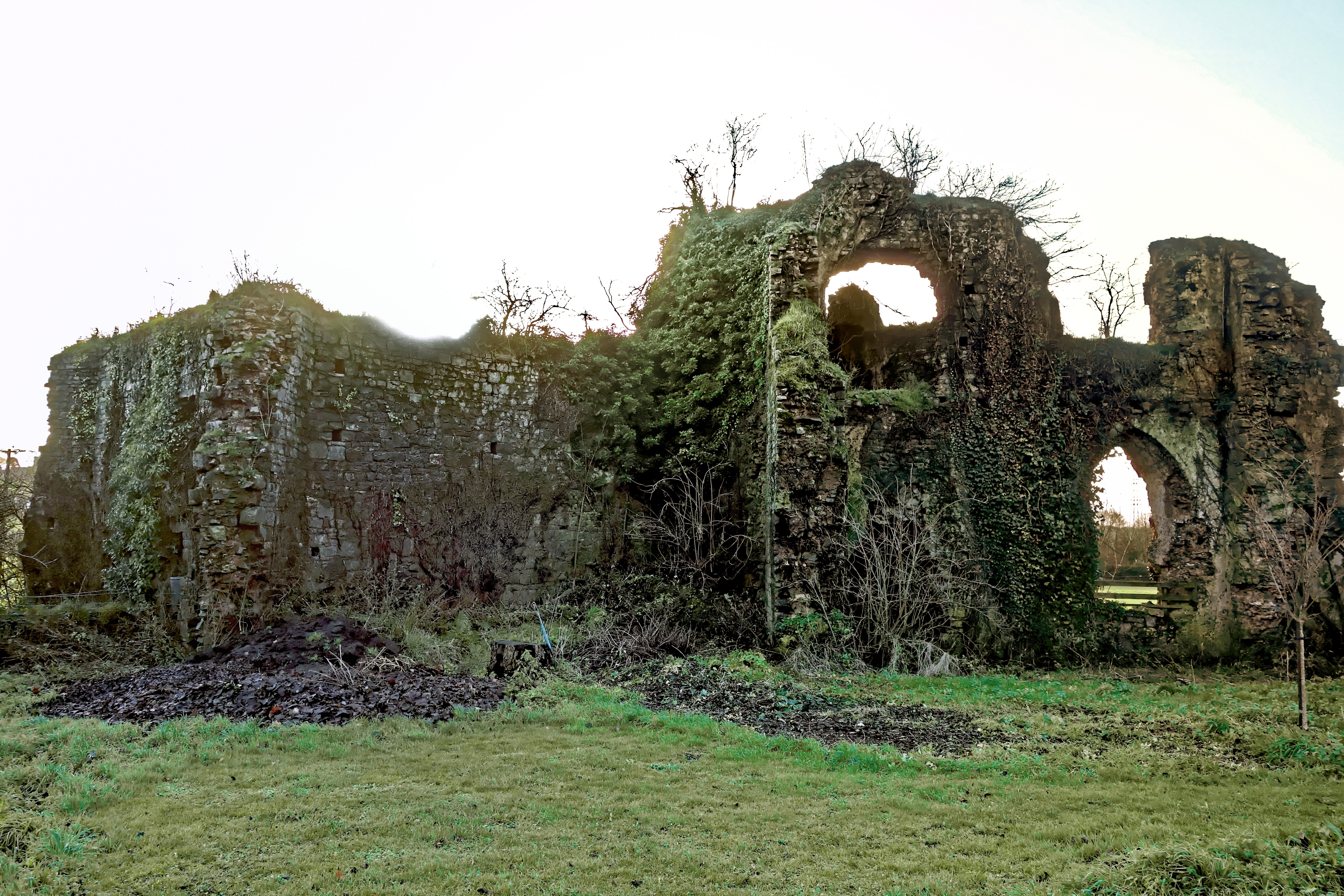 A photograph of Canonsleigh Abbey.